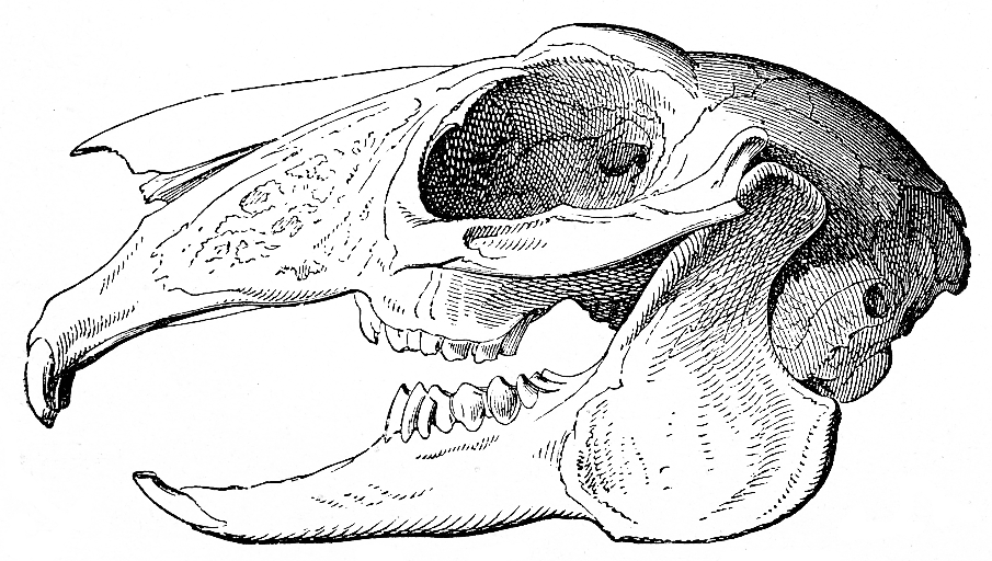 Skull of a hare.